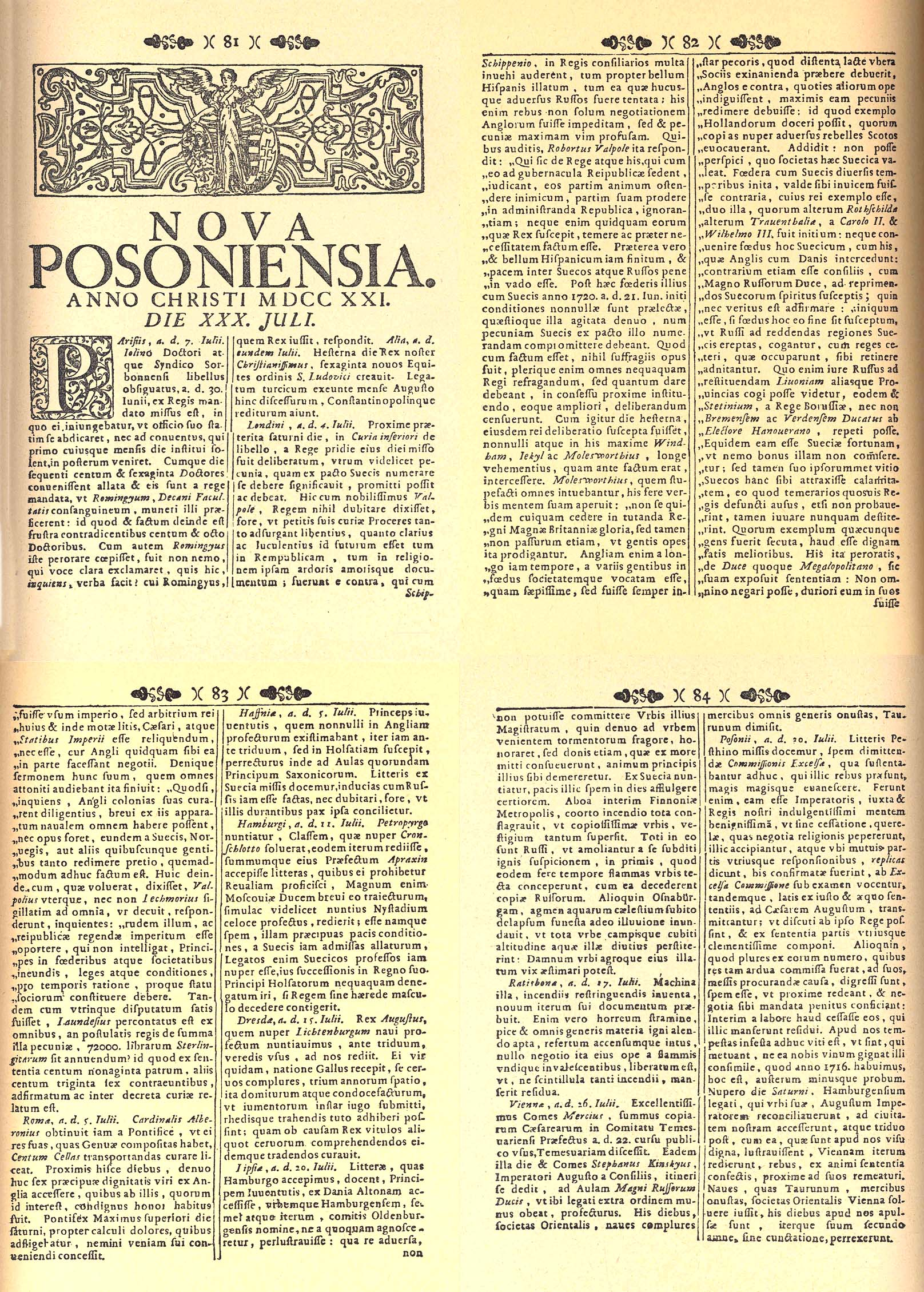 Newspaper Nova Posoniensia, 1721, Matthias Bel, Bratislava